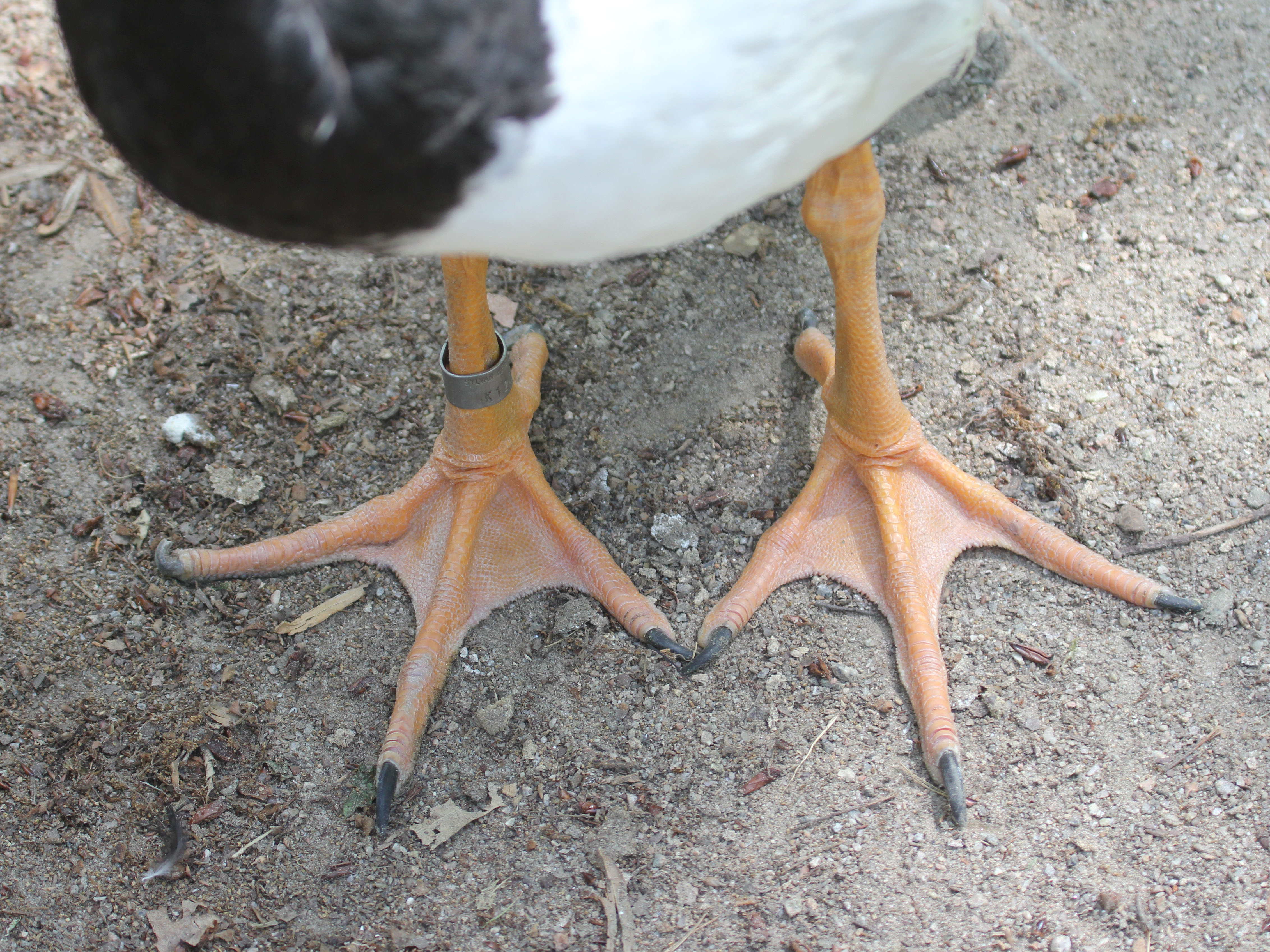 Magpie Goose foot - Sylvan Heights Waterfowl Park, Scotland Neck, North Carolina